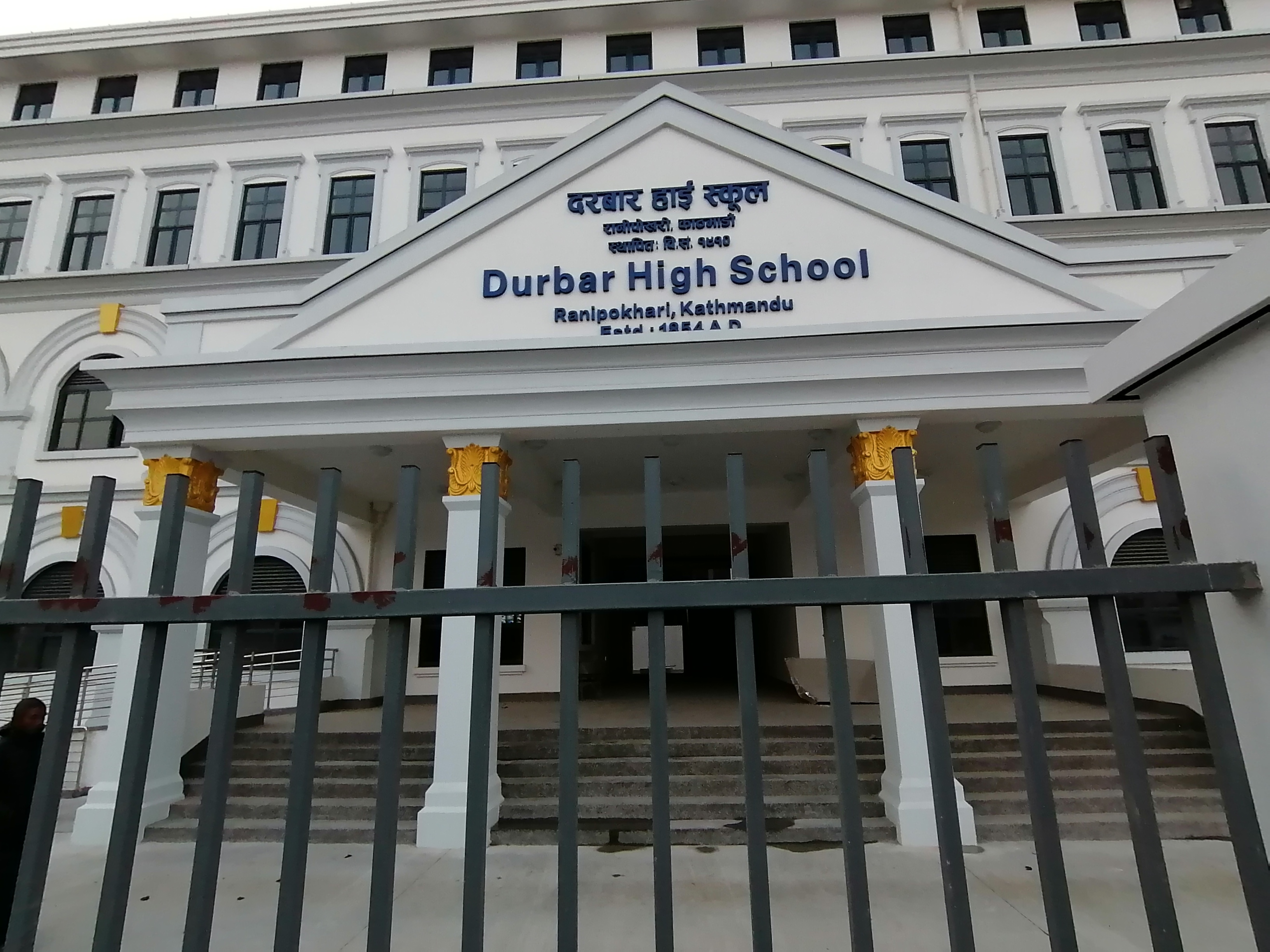 Durbar High School is the first school of Nepal established during Rana Regime.